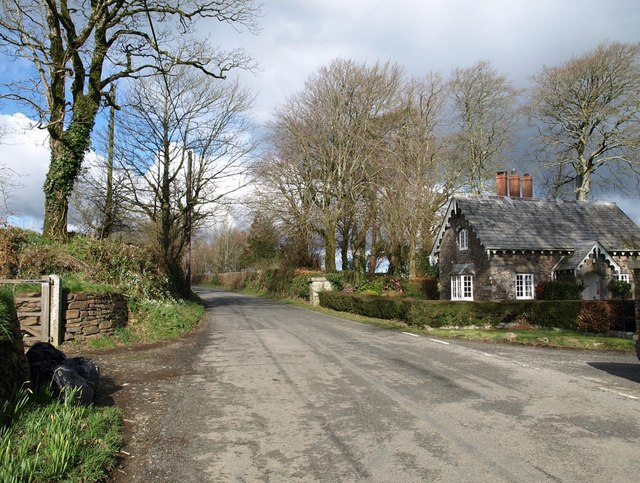 Lodge, Penheale The attractive lodge at the end of the drive to Penheale Manor has fine cuspy bargeboards. The road is from Egloskerry to Tresmeer.